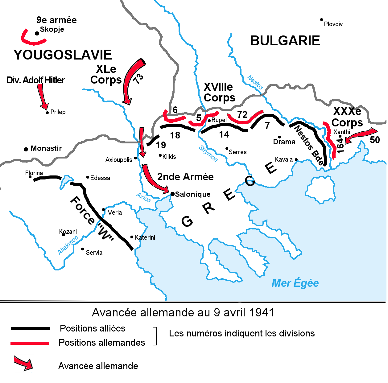 Map in French of the battle of Greece in April 1941, showing the front line on 9th April. The numbers indicate divisions.